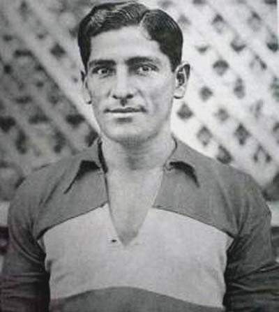 Paraguayan football forward, Delfín Benítez Cáceres, during his tenure on Boca Juniors of Argentina.